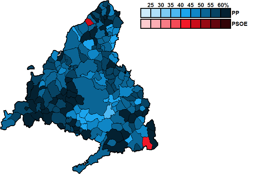 Most-voted party in Madrid municipalities, showing vote share obtained, in the Spanish general election, 2011.